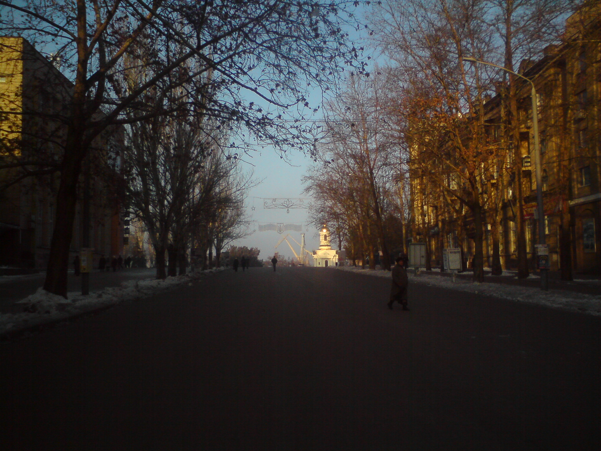 Radyans'ka street, Mykolayiv